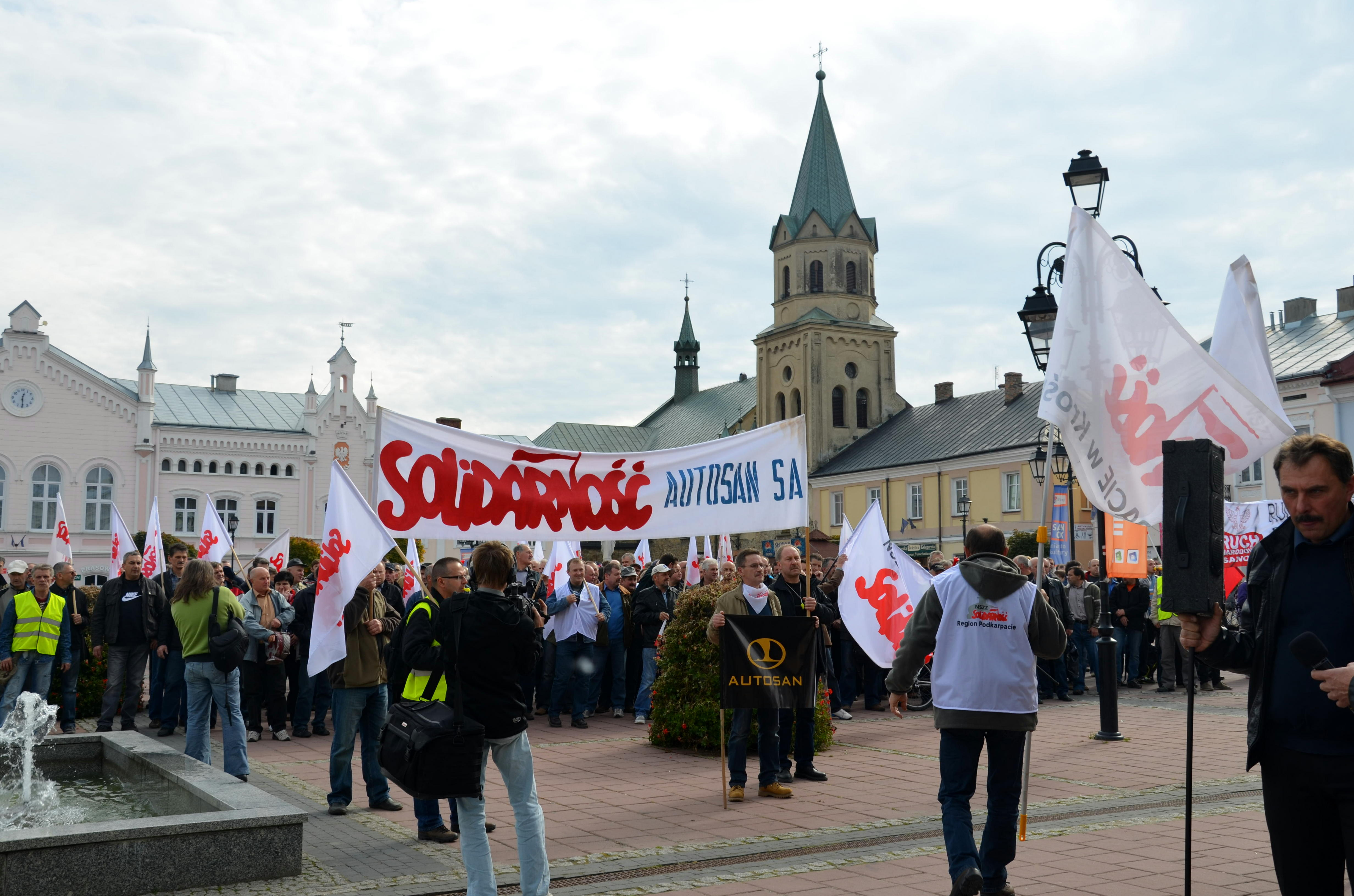 Protest against the liquidation of the Autosan Plant in Sanok